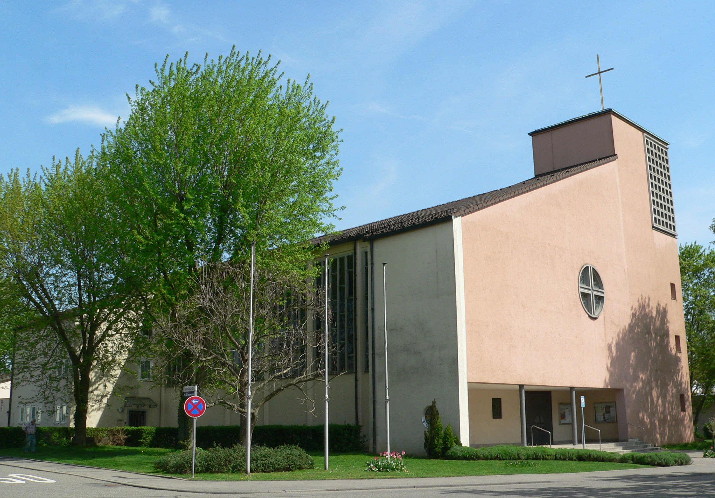 The Catholic Church "Pax Christi" of Neckarsulm-Amorbach (the part of the town Neckarsulm)